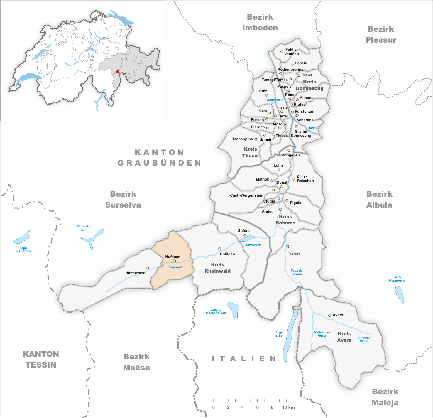 Municipality Nufenen